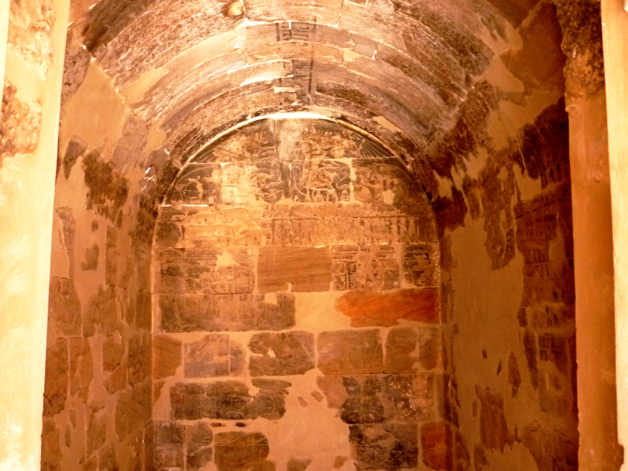 Inside of the tomb of Amenirdis, tombs of the Divine Adoratrice of Amun, Medinet Habu, Theban Necropolis, Egypt